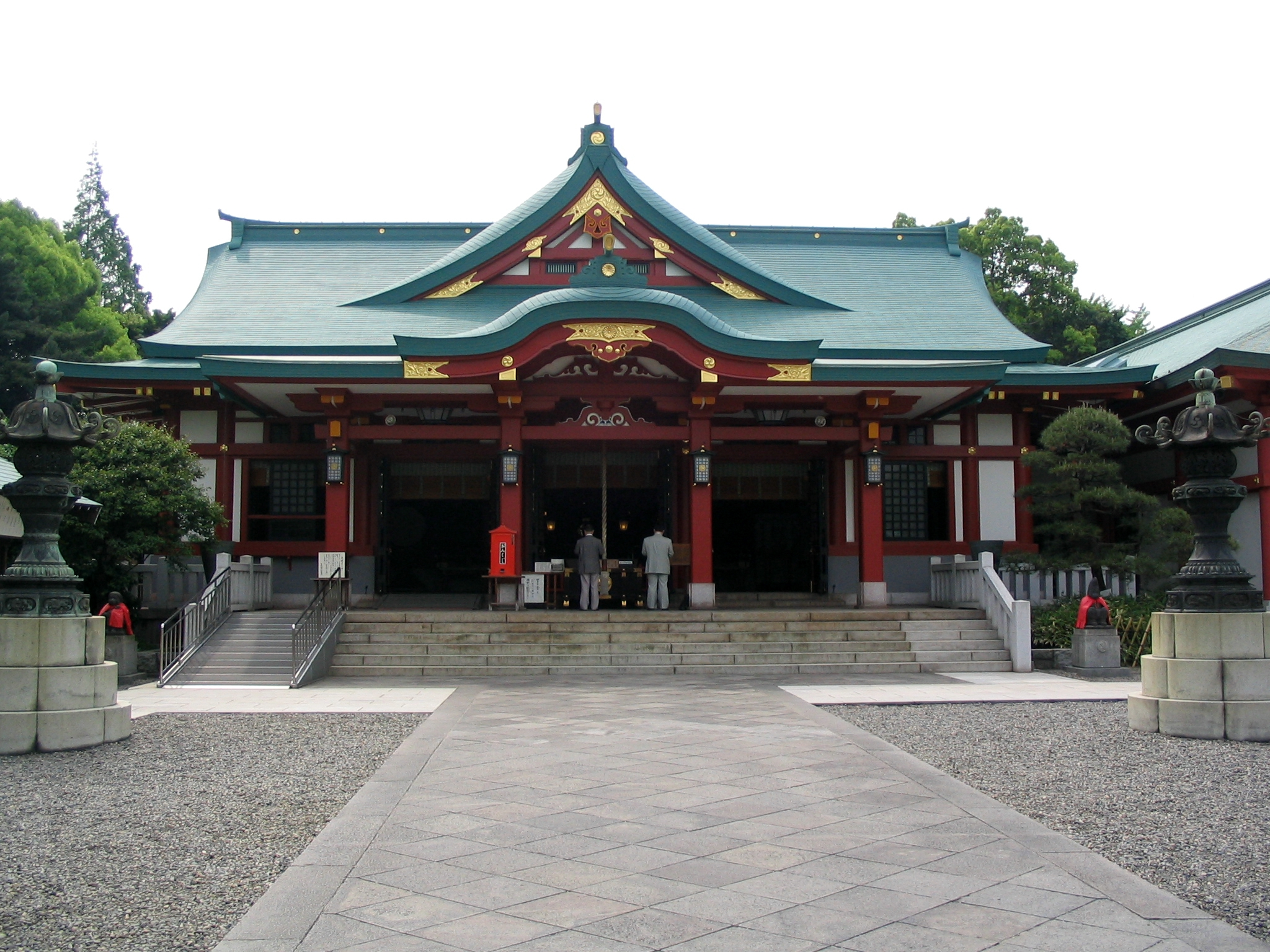 Hie Shrine, Tokyo, Japan